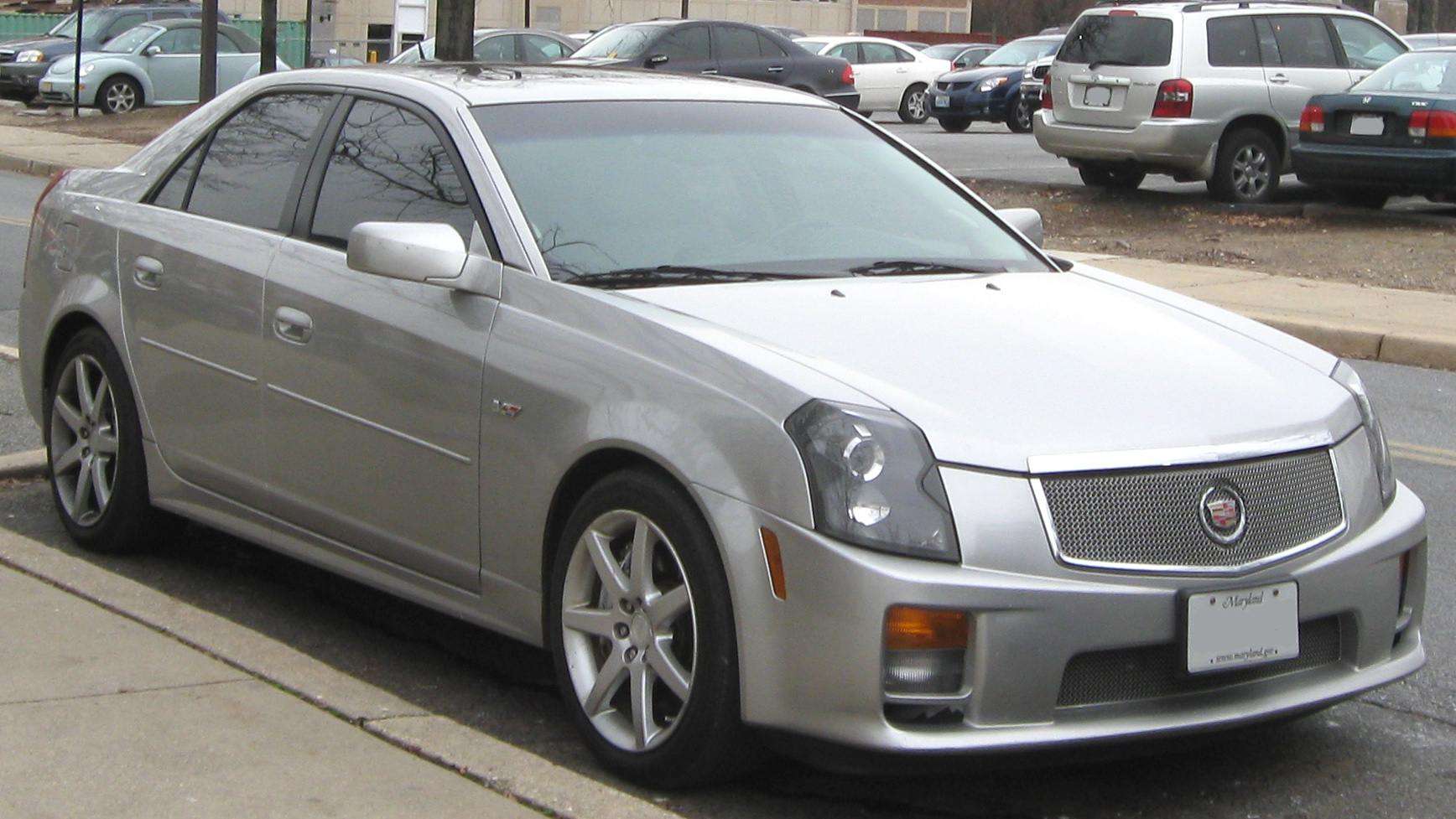 Cadillac CTS-V photographed in College Park, Maryland, USA.